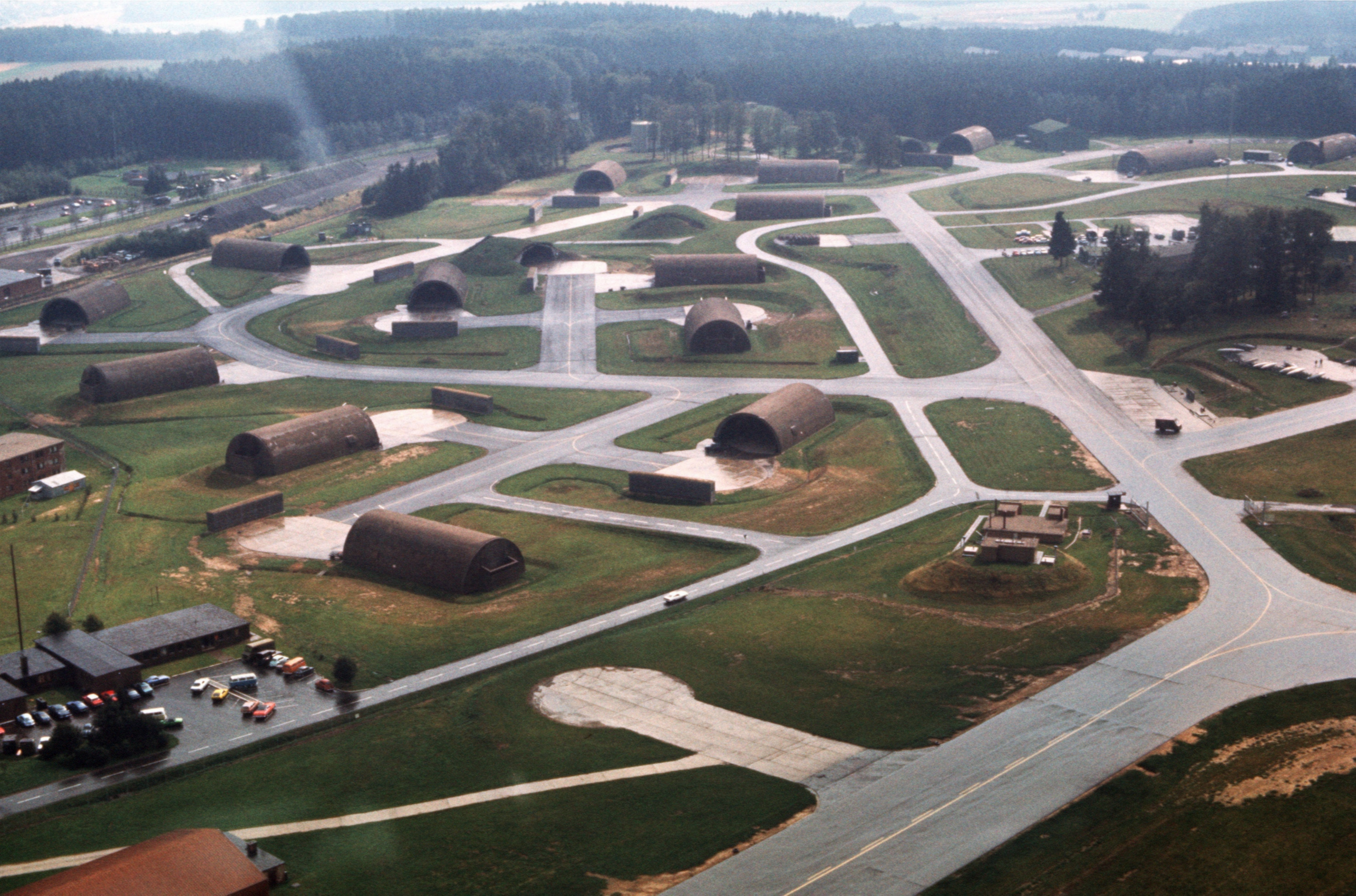 An aerial view the hardened aircraft shelters of Hahn Air Base, Germany, prior to completion of "Project Tonedown", in which aircraft taxiways and runways were camouflaged according to U.S. Air Force Europe specifications, on 9 September 1977.